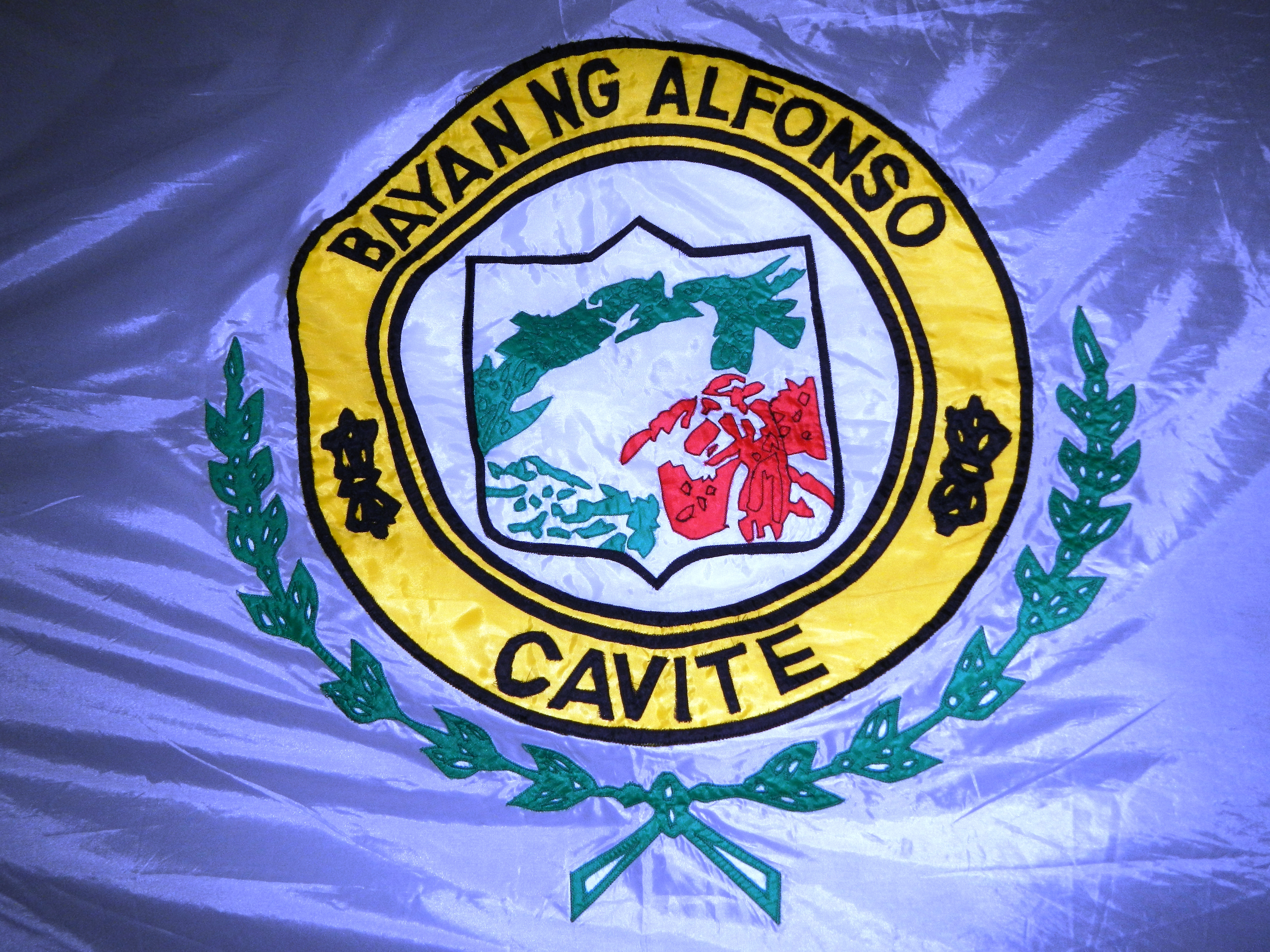 Upload Wizard -- (general description of landmarkds, town, church, bad weather, going to dark, sunset conditions) - of -Alfonso Municipal Hall[1] Coordinates: 14°8'16"N 120°51'18"E - Alfonso, Cavite[2] (a first class municipality in the province of Cavite, Philippines, 2010 Philippine census, population of 48,567 people in an area of 70.0 square kilometers politically subdivided into 32 barangays.[3] Alfonso [4] Coordinates: 14°8'32"N 120°51'27"E [5] [6] Matagbak Coordinates: 14°7'24"N 120°50'2"E) - Centro, Town Proper, Plaza, downtown, Alfonso Covered Court, Basketball court grandstand.